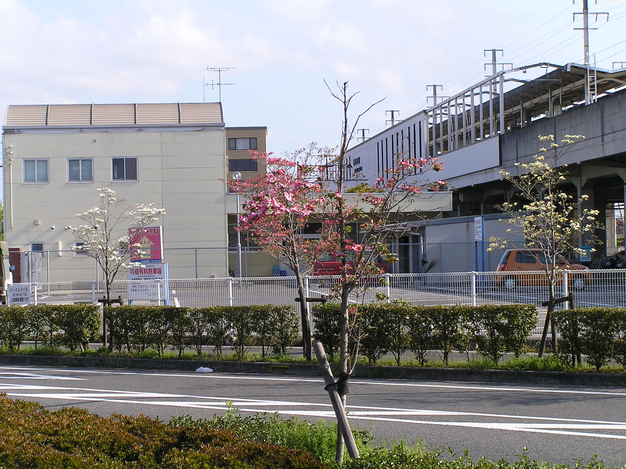 The vicinity of Chayamachi Station